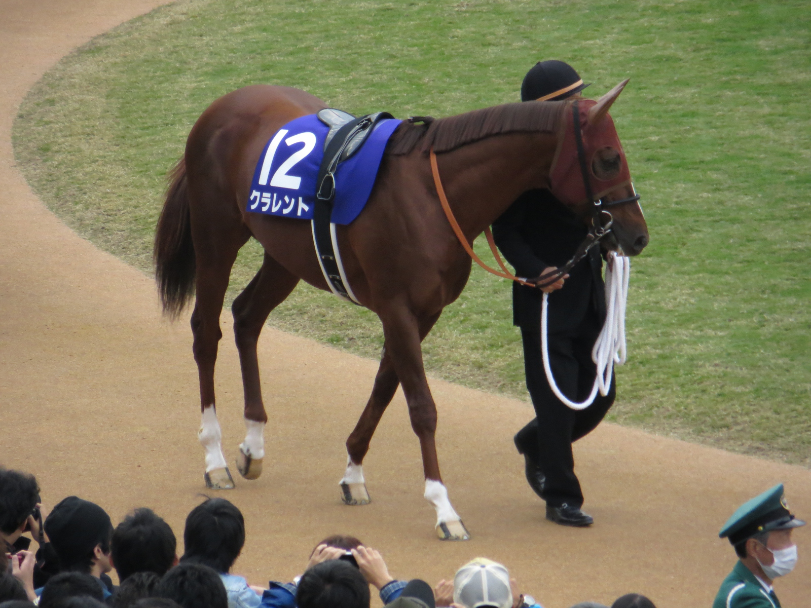 Clarente (Racehorse of Japan)